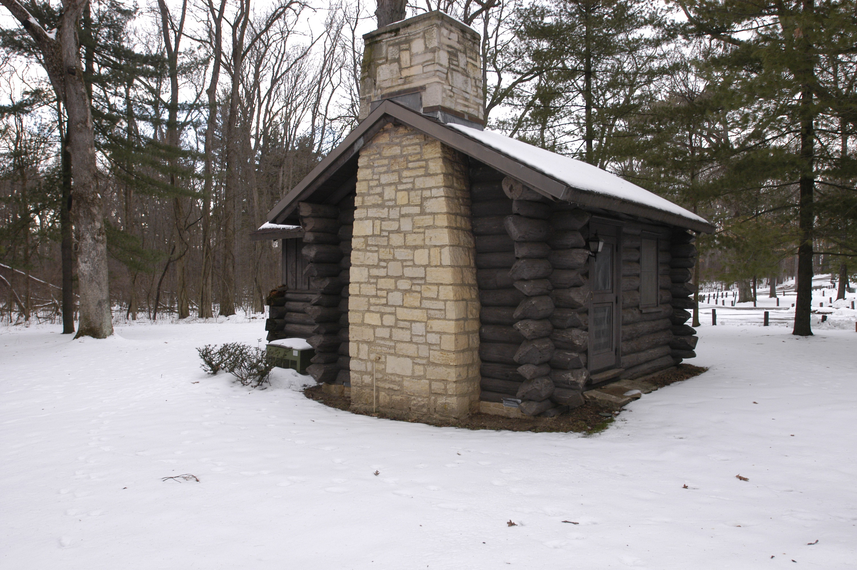 White Pines State Park Lodge and Cabins in White Pines Forest State Park, near Mt. Morris and Polo, Illinois. National Register of Historic Places.